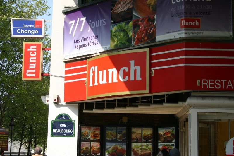 "Flunch" restaurant in Paris